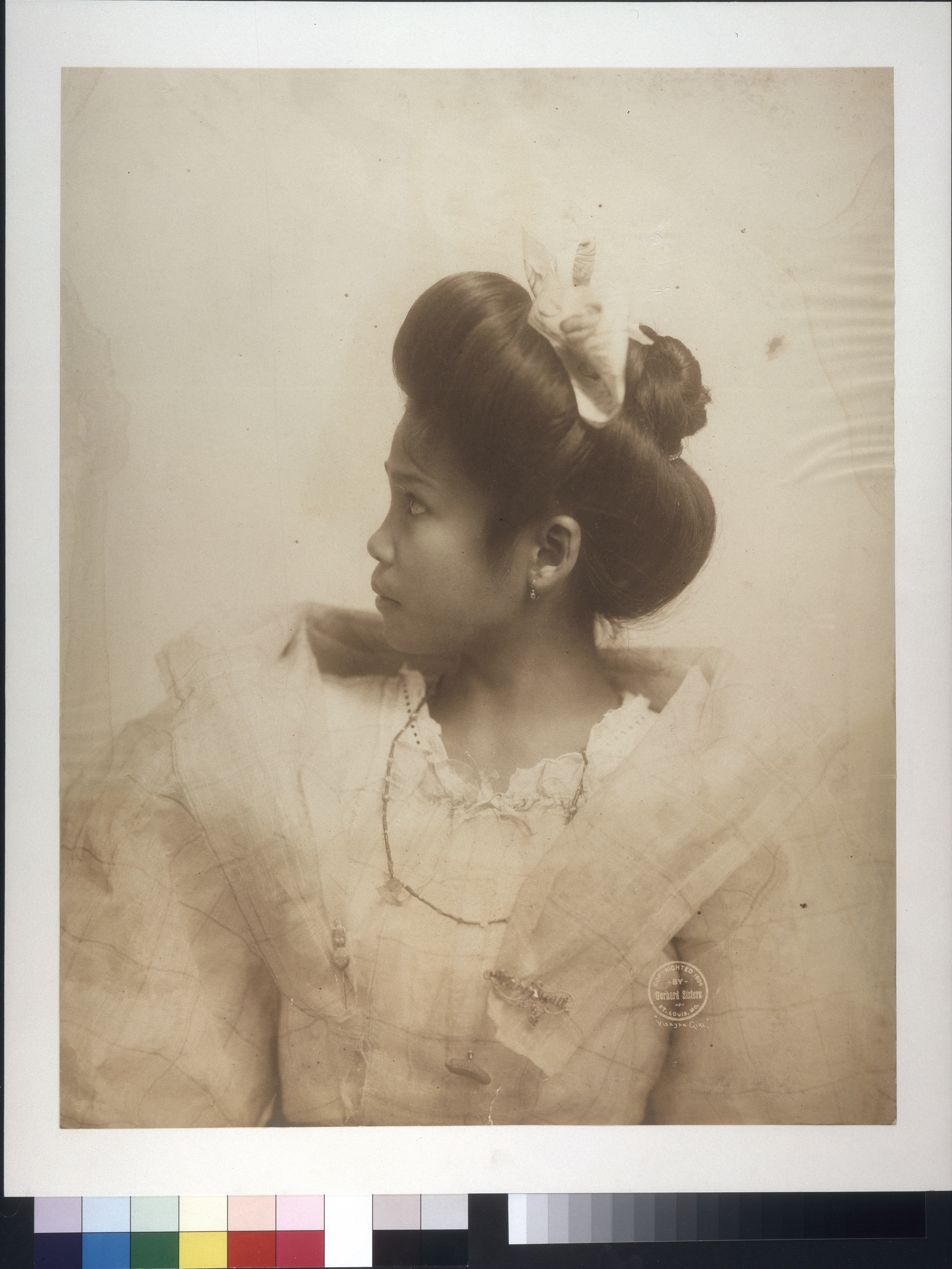 Title: Visayan Girl. (Taken during the 1904 World's Fair).